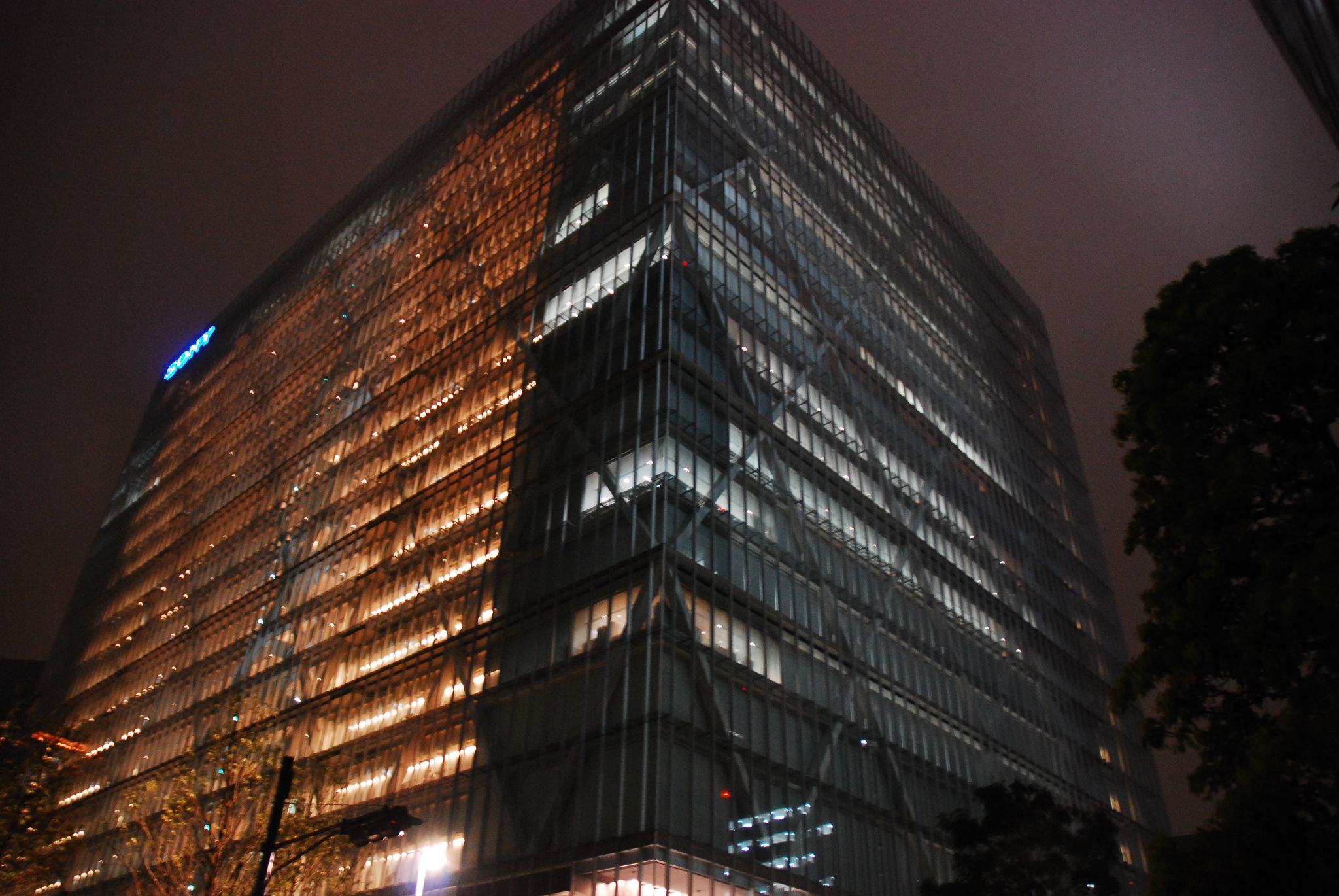 Sony Head Office, Minato-ku, Tokyo (See where this picture was taken.). Photo taken with a NIKON D80.